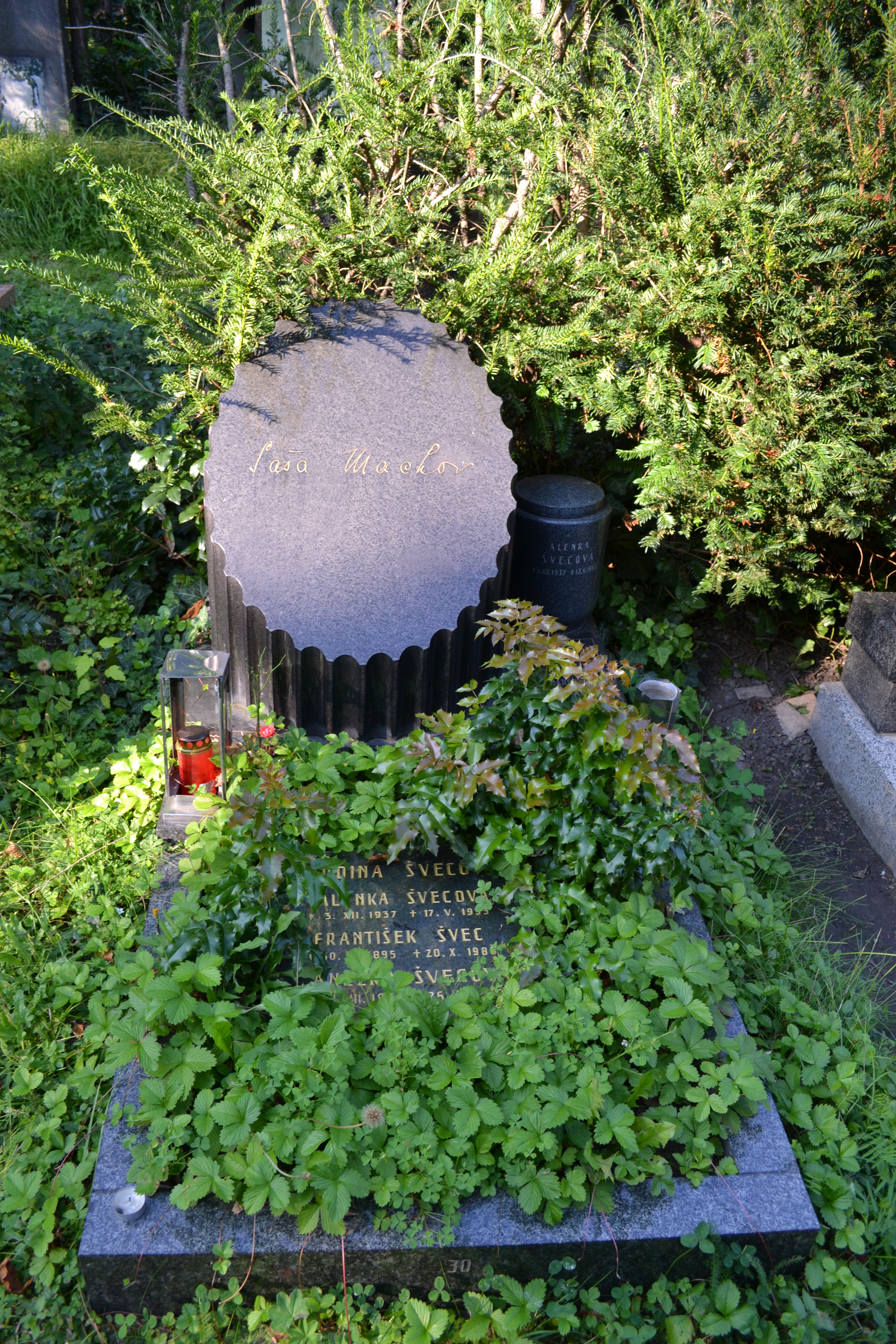 Saša Machov, Czech dancer and choreographer, Tomb at Vinohrady Cemetery in Prague